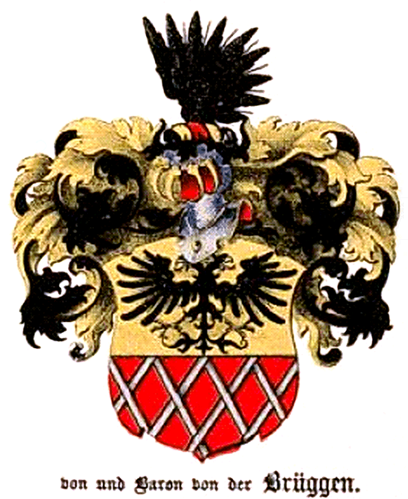 Coat of arms of Baron Bruggen family